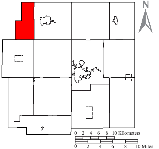 Made by the US Census and modified by myself